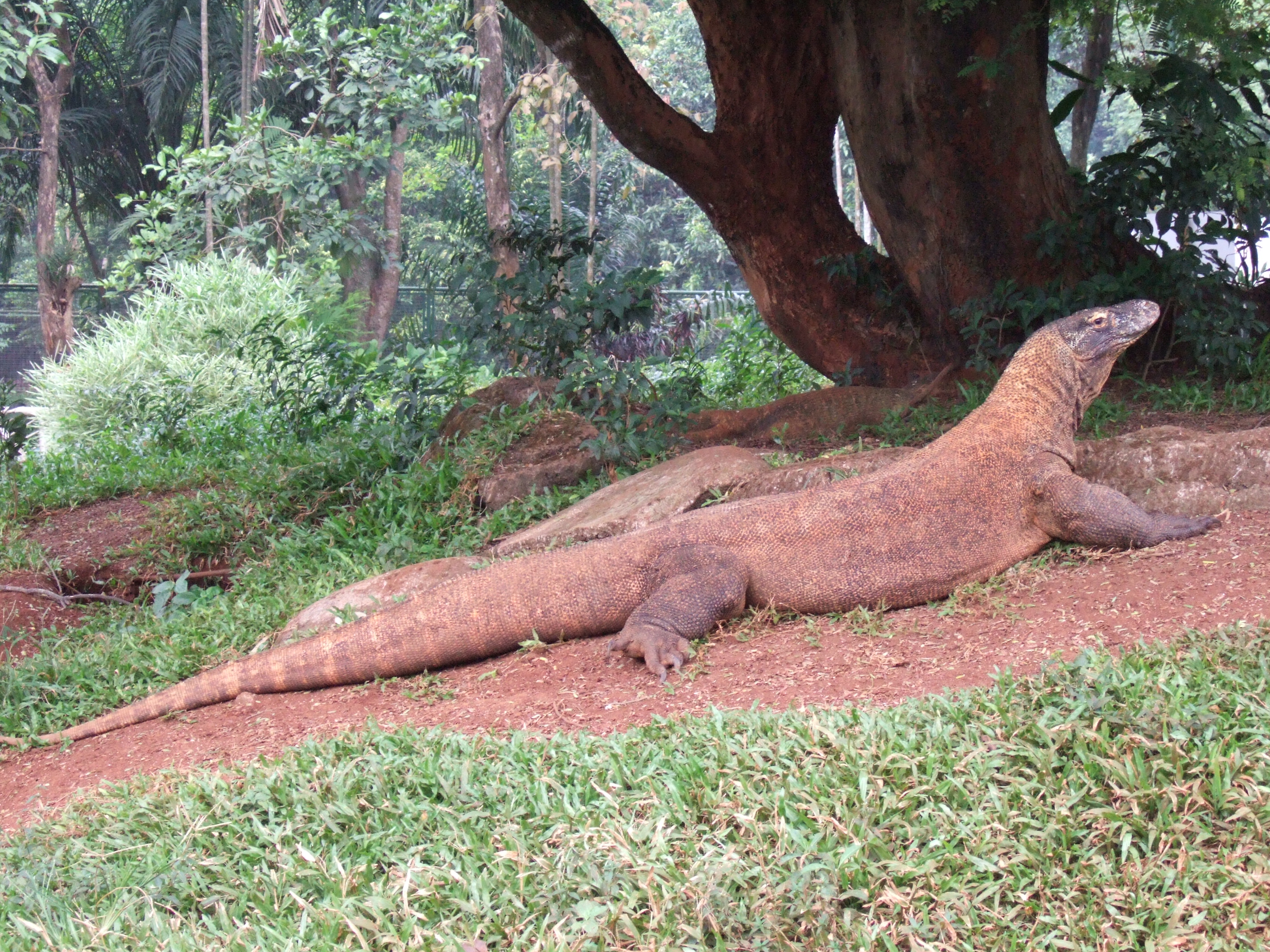 Komodo dragon, Varanus komodoensis (Ragunan Zoo, Jakarta, Indonesia)